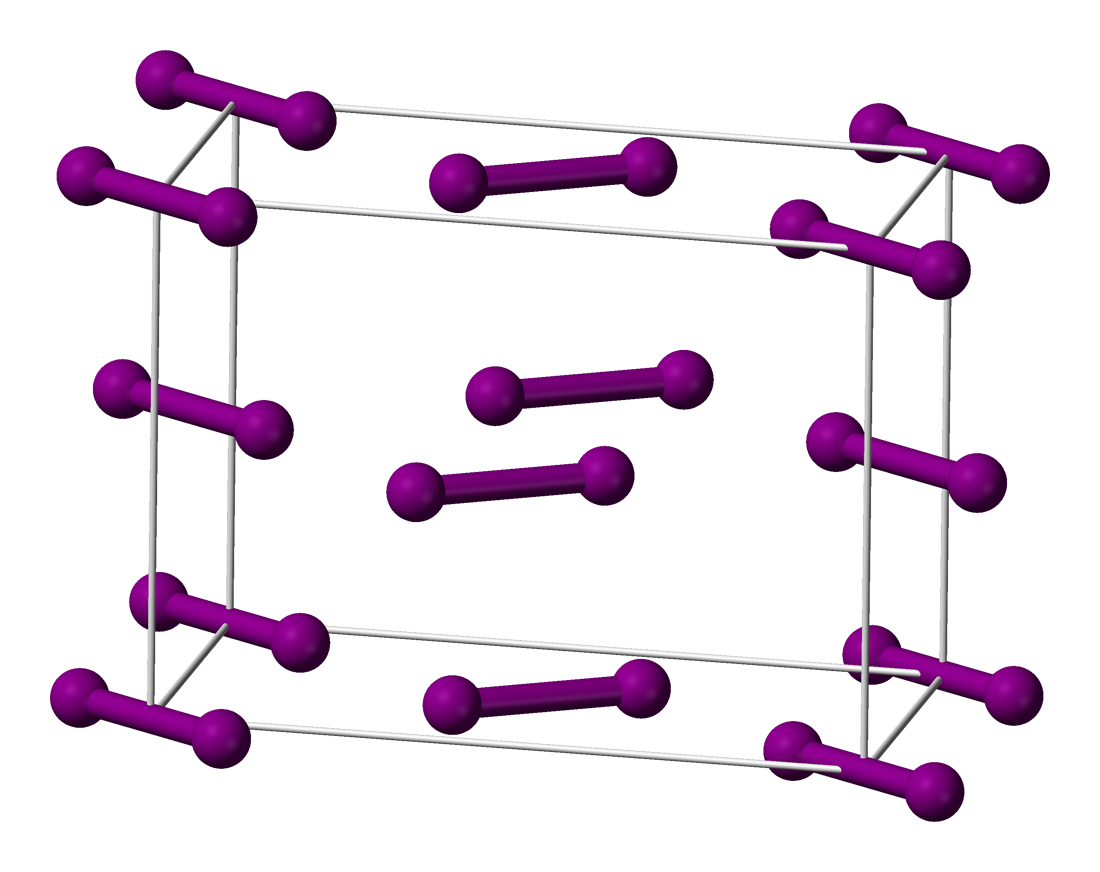 Ball-and-stick model of the unit cell of iodine. Crystal structure data from Wyckoff (1963) Crystal Structures - Second Edition, Volume 1. John Wiley, New York. Image generated in Accelrys DS Visualizer.